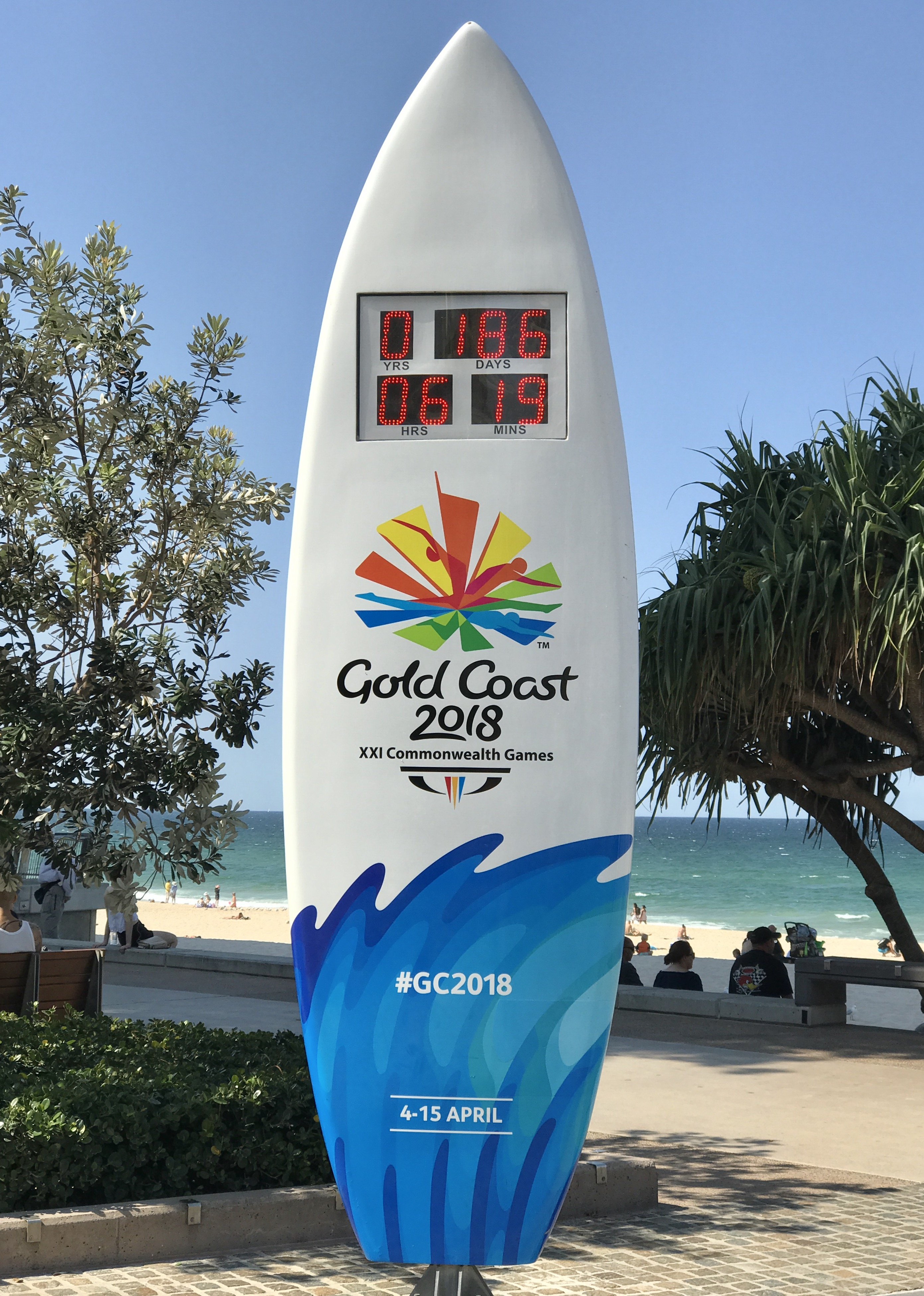 186 days to 2018 Commonwealth Games, September 2017